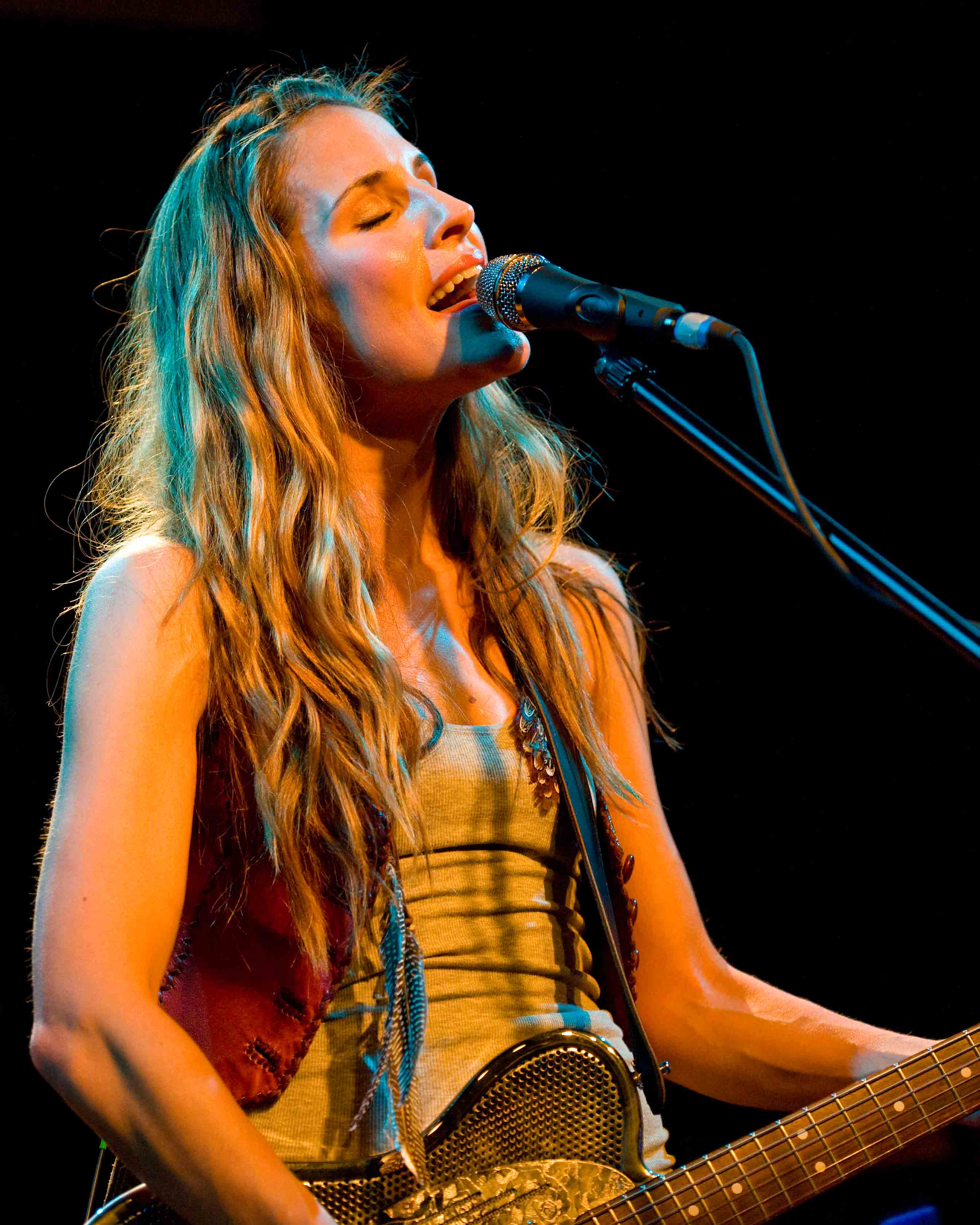 Emily Robison of the Court Yard Hounds (Dixie Chicks fame) at Antone’s, SXSW, Austin, Texas 3-18-10